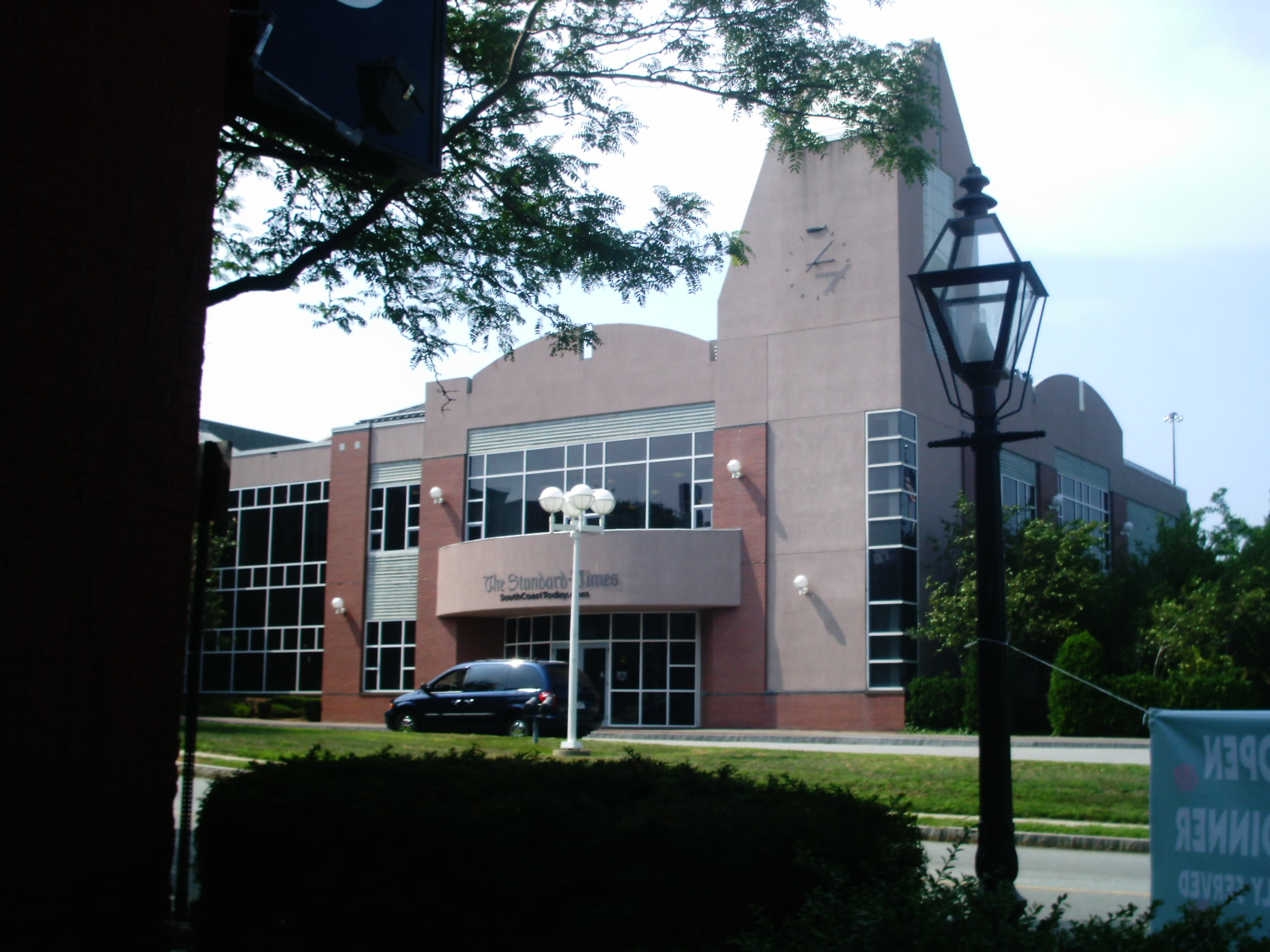 The Standard-Times office building at 25 Elm St. in New Bedford, Massachusetts.